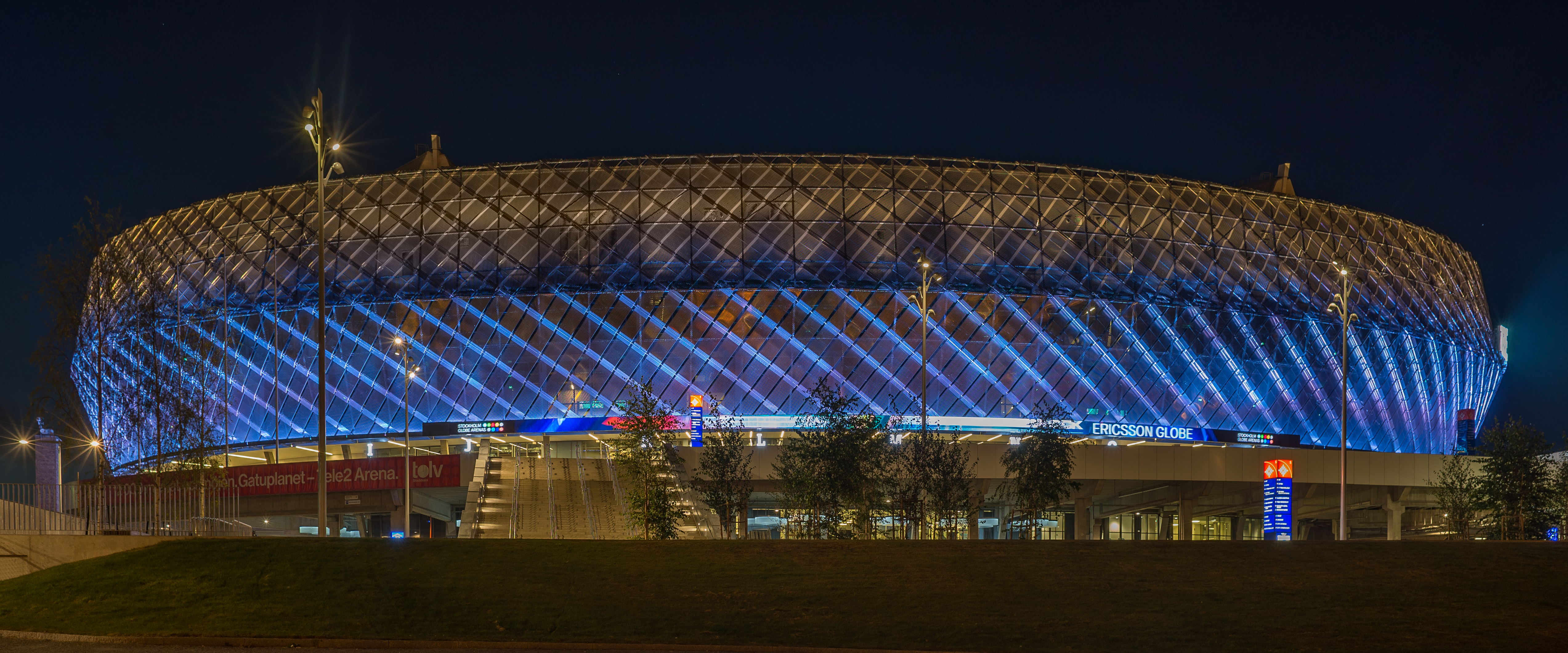 Tele2 Arena at night. View from south. Johanneshov, Stockholm.